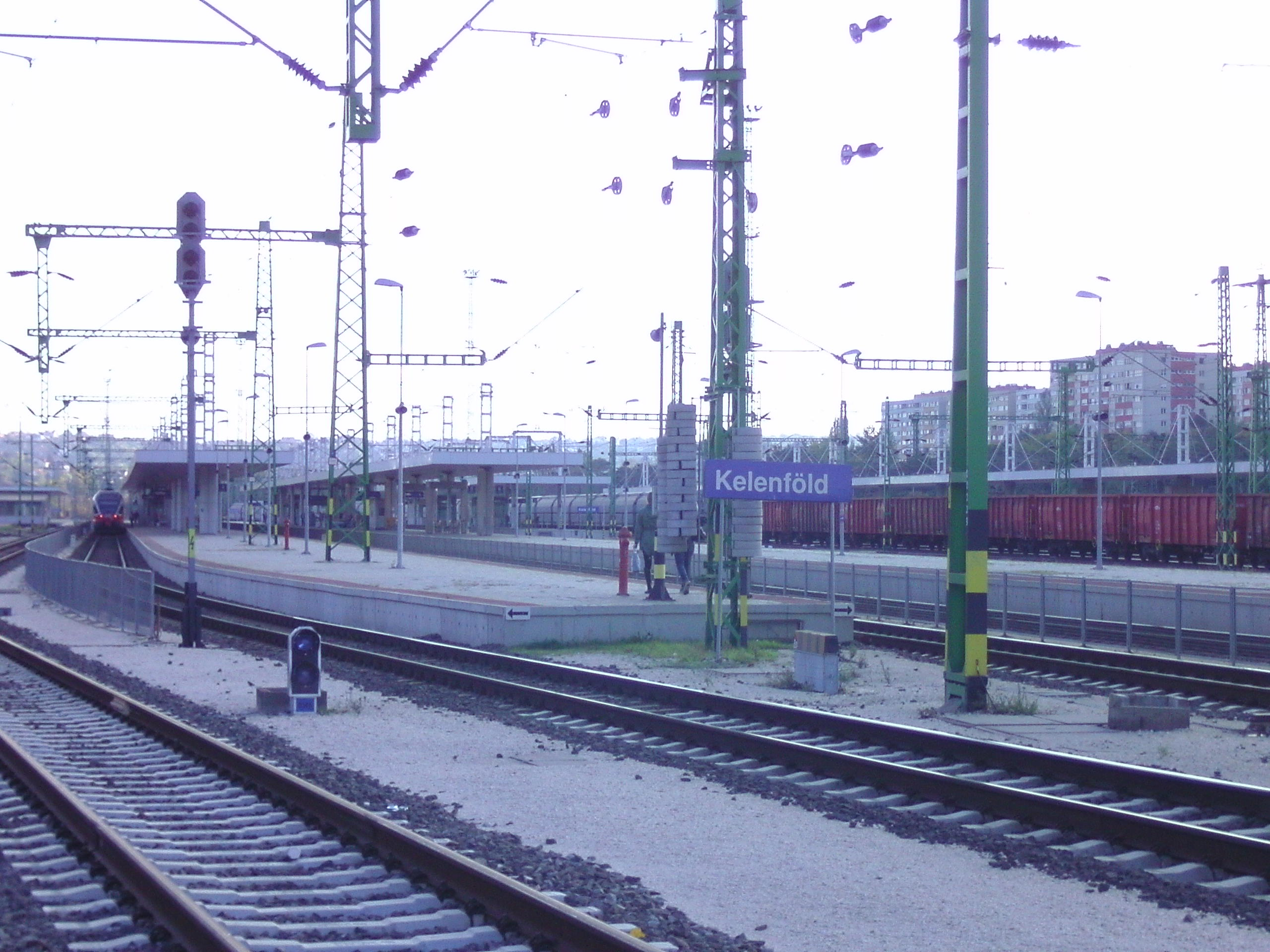 Kelenföld railway station from north. - Budapest XI.distr.